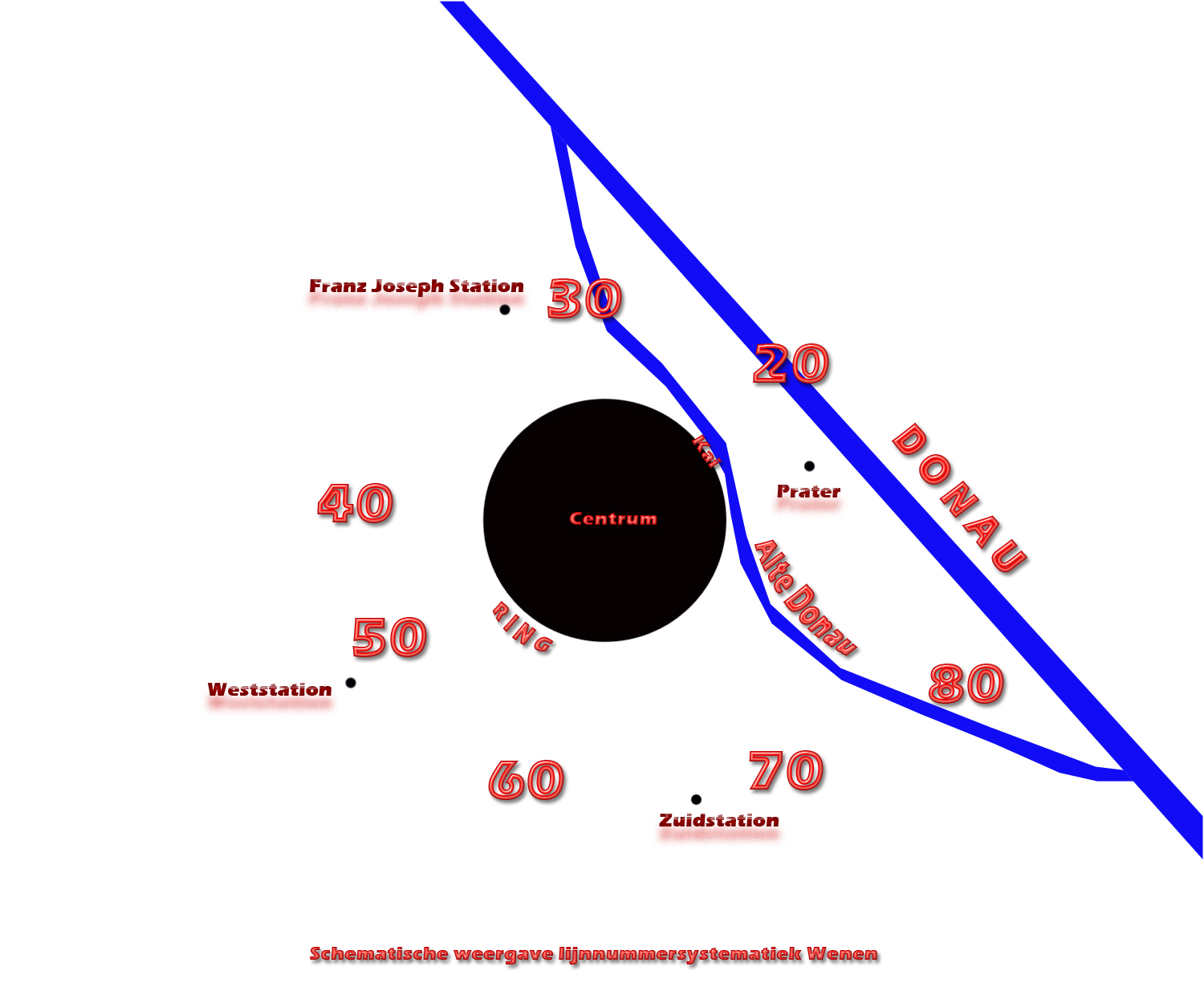 Map of the line numbering system in Vienna.